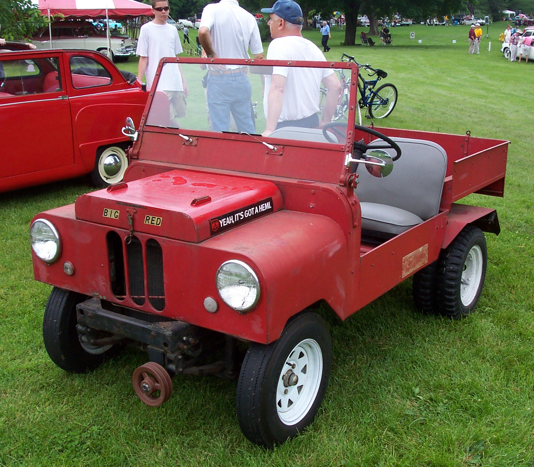 Orphan Car Show, Ypsilanti, Michigan, June 2007 The Crosley and Crofton Bug were pretty similar. (The Crofton Bug was the Farm-O-Road built by Crofton with a different grille after Crosley stopped making cars.)